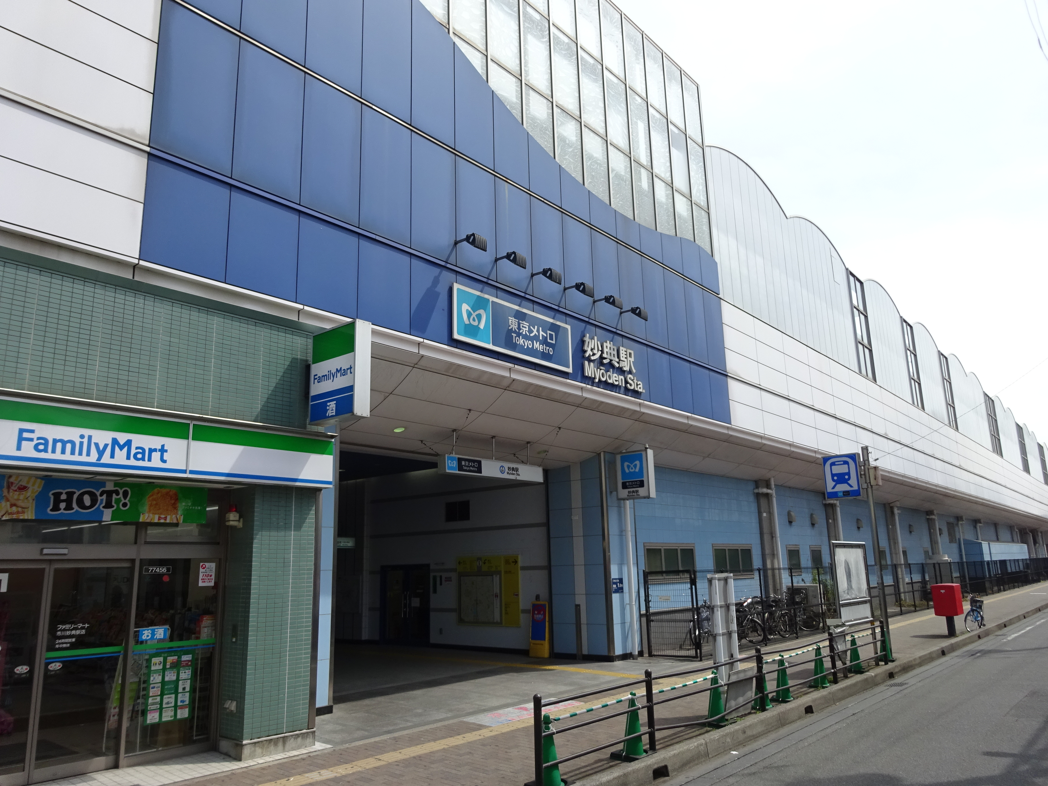 North entrance of Myōden Station